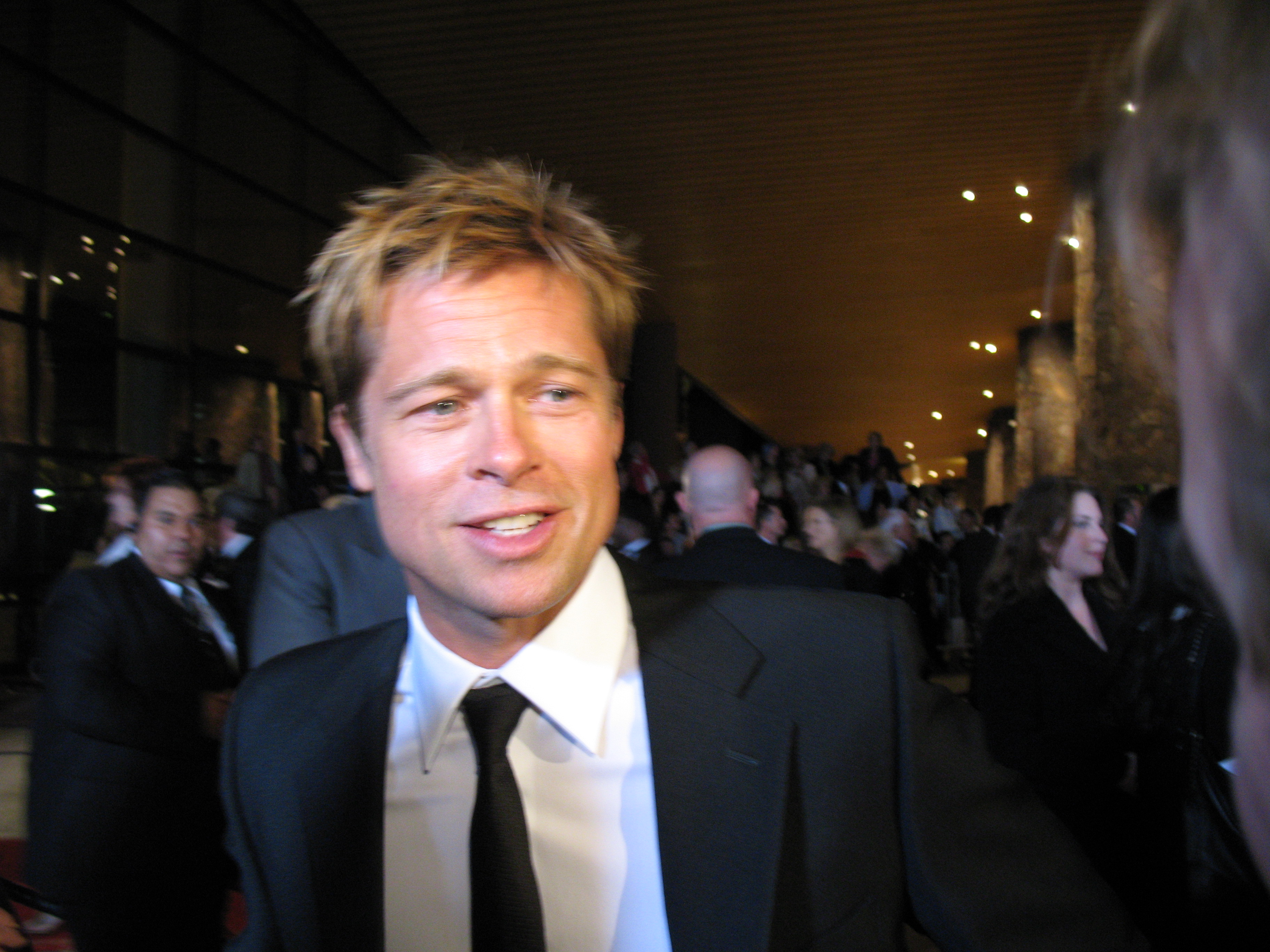 American actor Brad Pitt